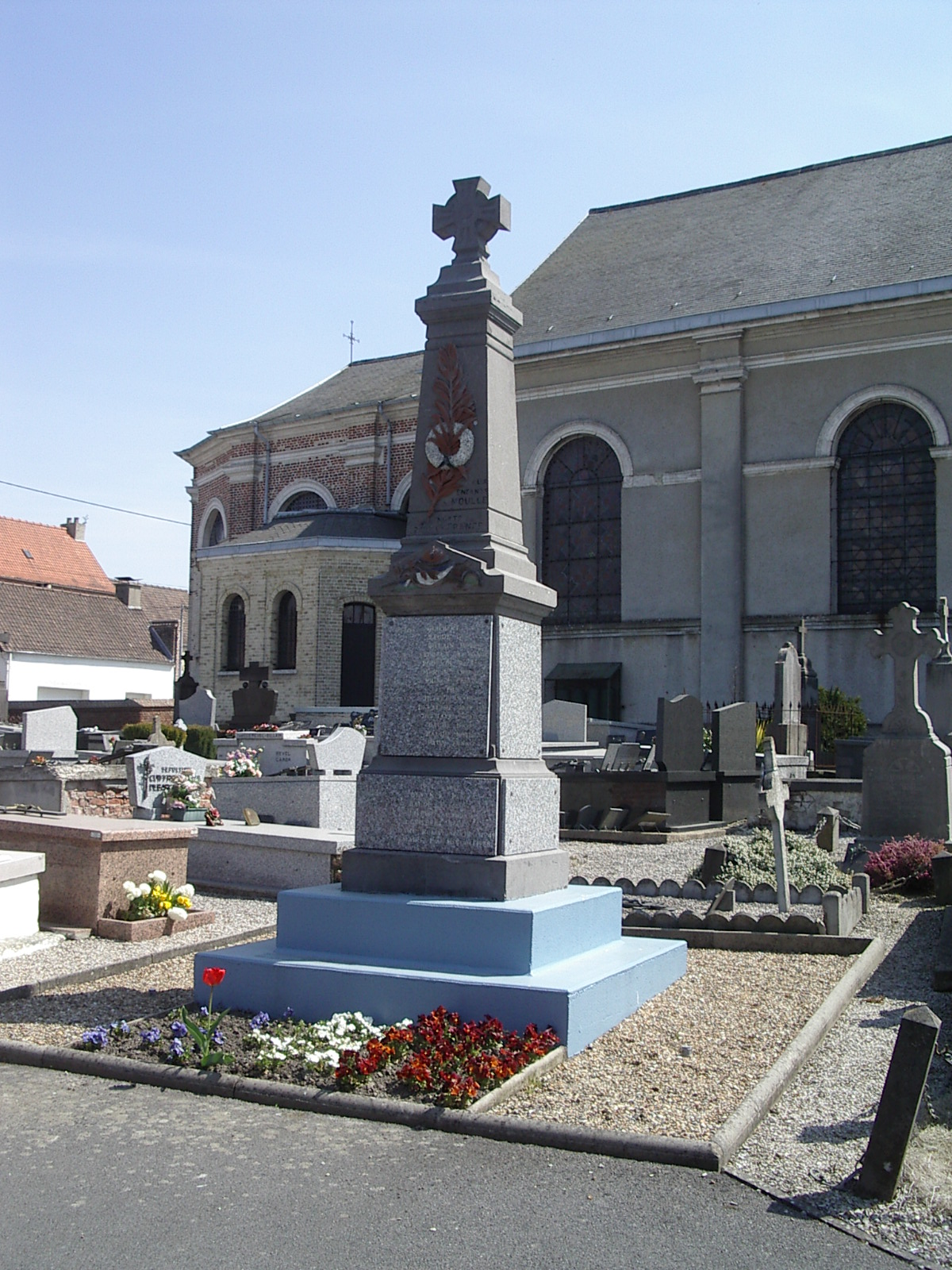 War memorial of Moulle (Pas-de-Calais, France)